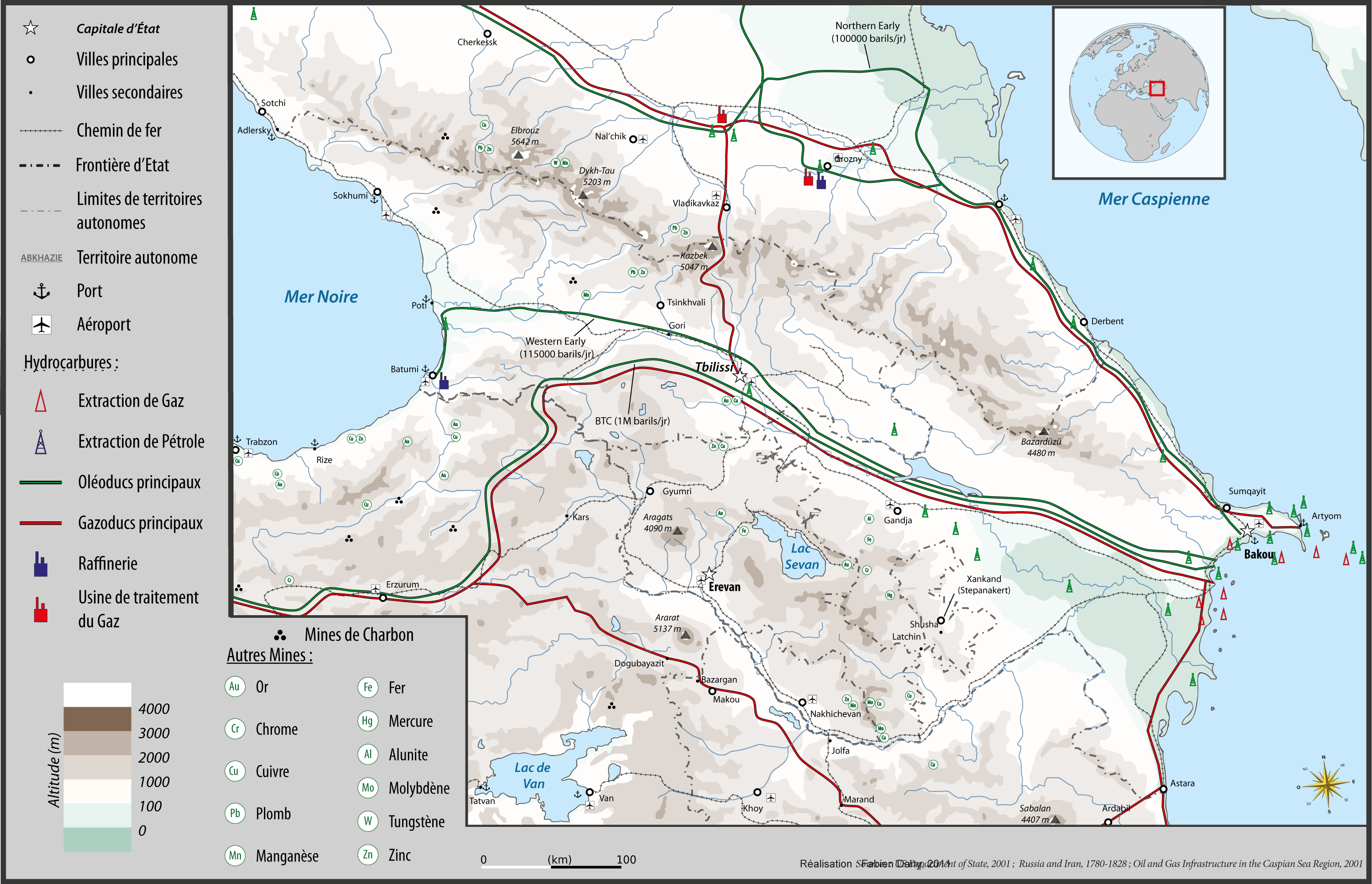 Maps of natural resources in the caucasian region